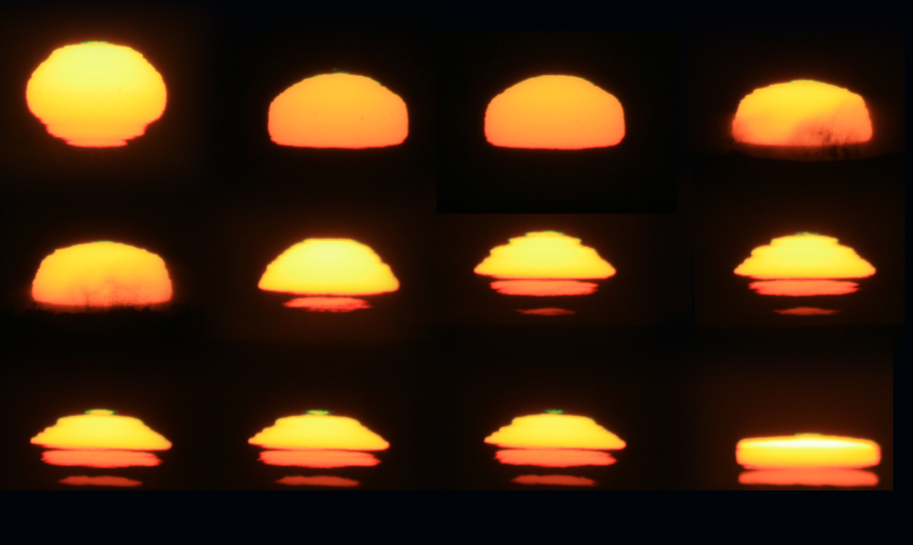 Sunset mirage and green flash. There are ocean waves in frames #4 and #5